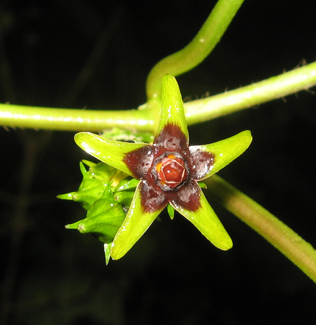 Gonolobus suberosus, thickets near the Caney Fork of the Cumberland River, White County, Tennessee.